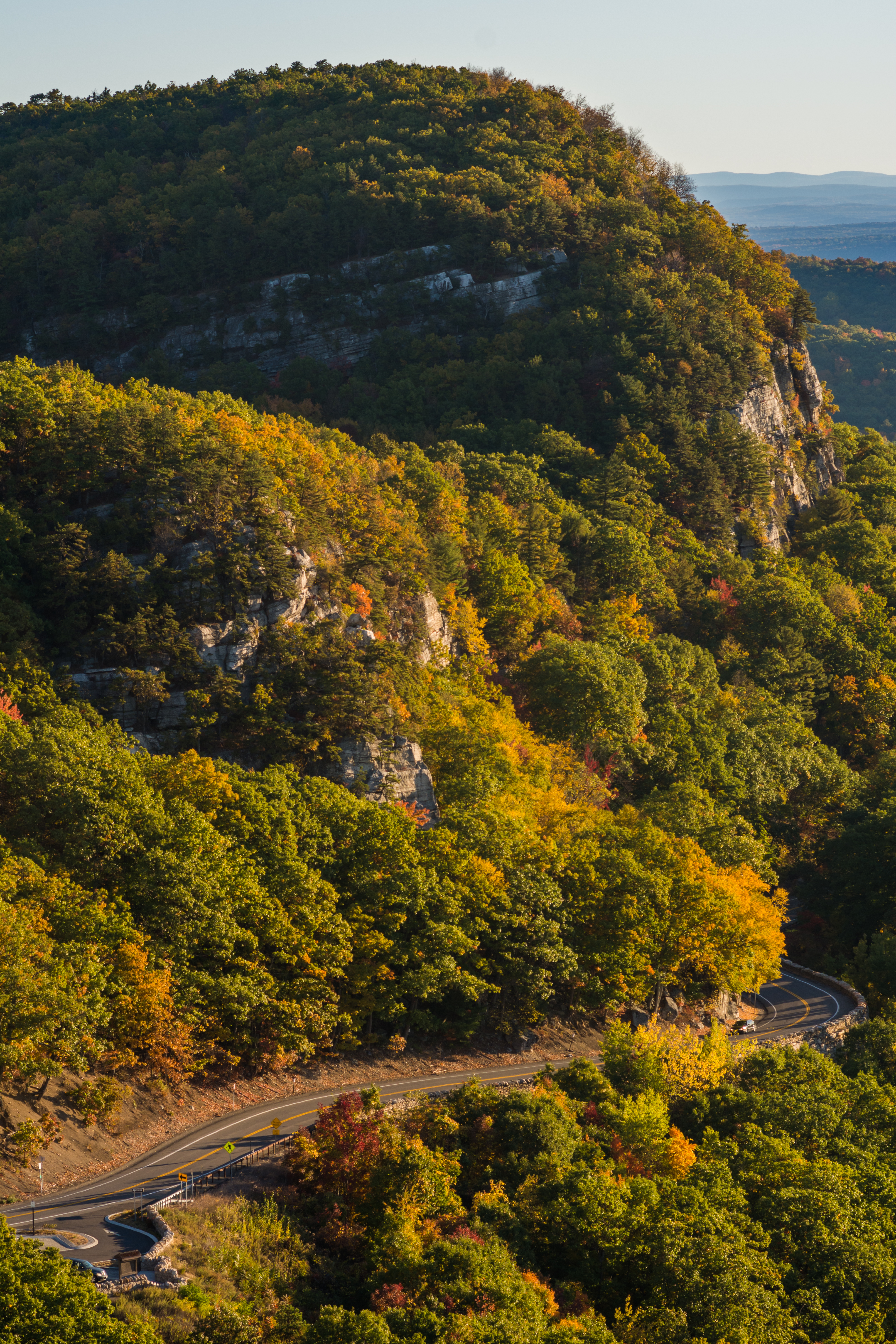 The view from the Millbrook Ridge Trail in the Mohonk Preserve of southeastern New York, looking north toward The Trapps and Route 44/55.